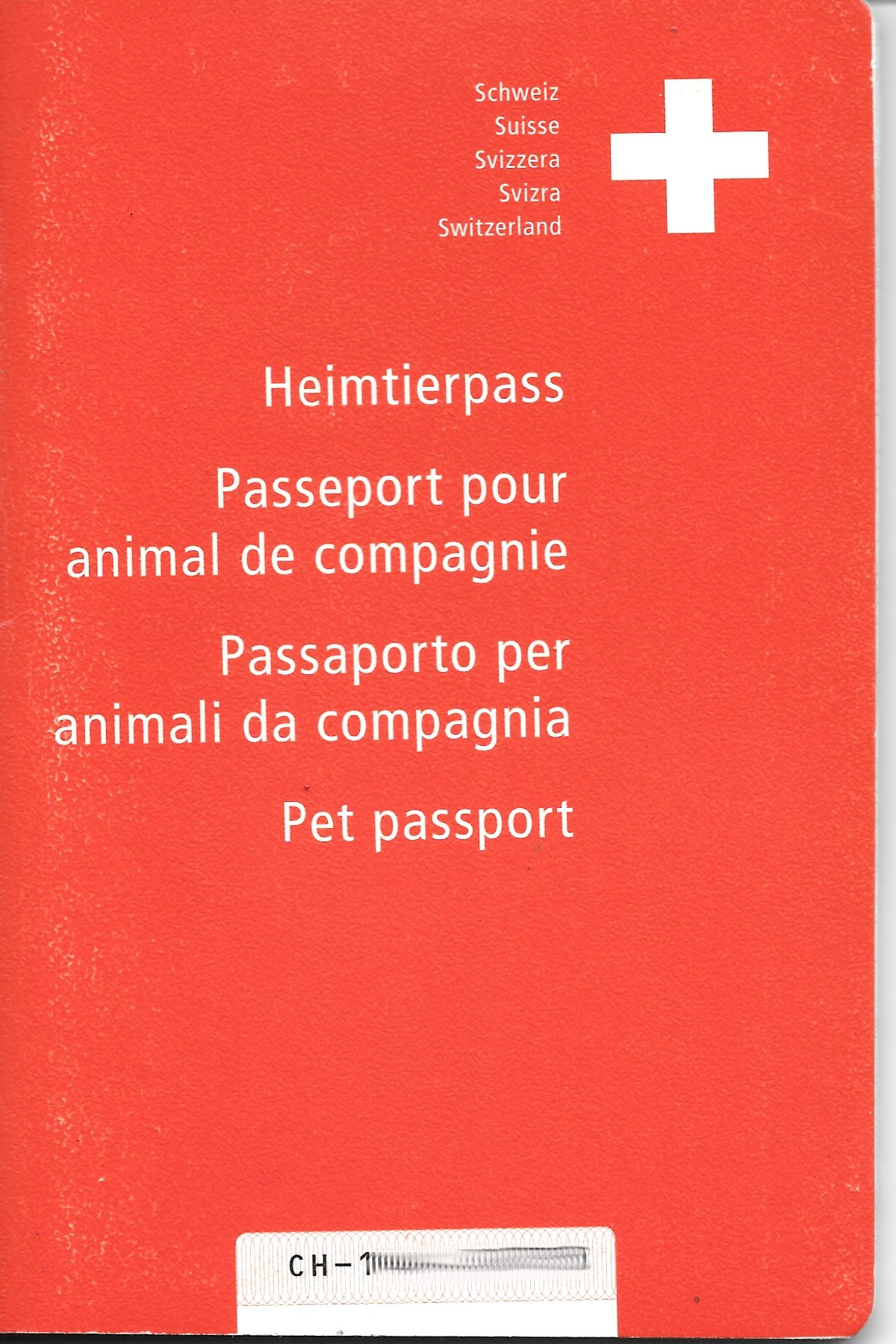 Pet Passport (Switzerland)